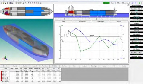 This file is a screenshot of CargoMax version 2.1 user interface.